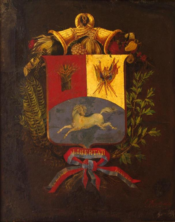 Escudo de Venezuela pintado por Eugene Forjonel (1813-1884) en 1850.